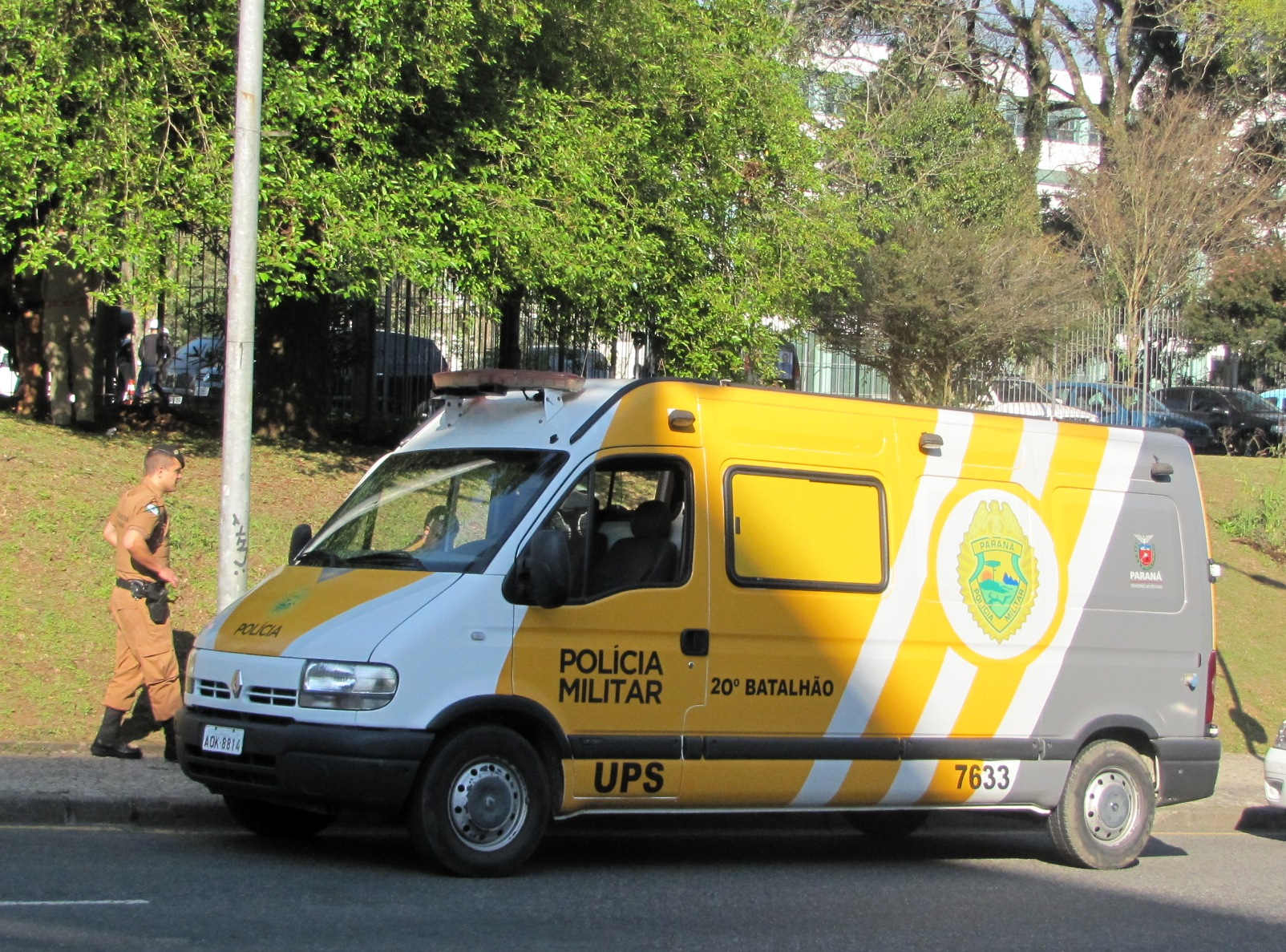 Renault Master II police van in Brazil.